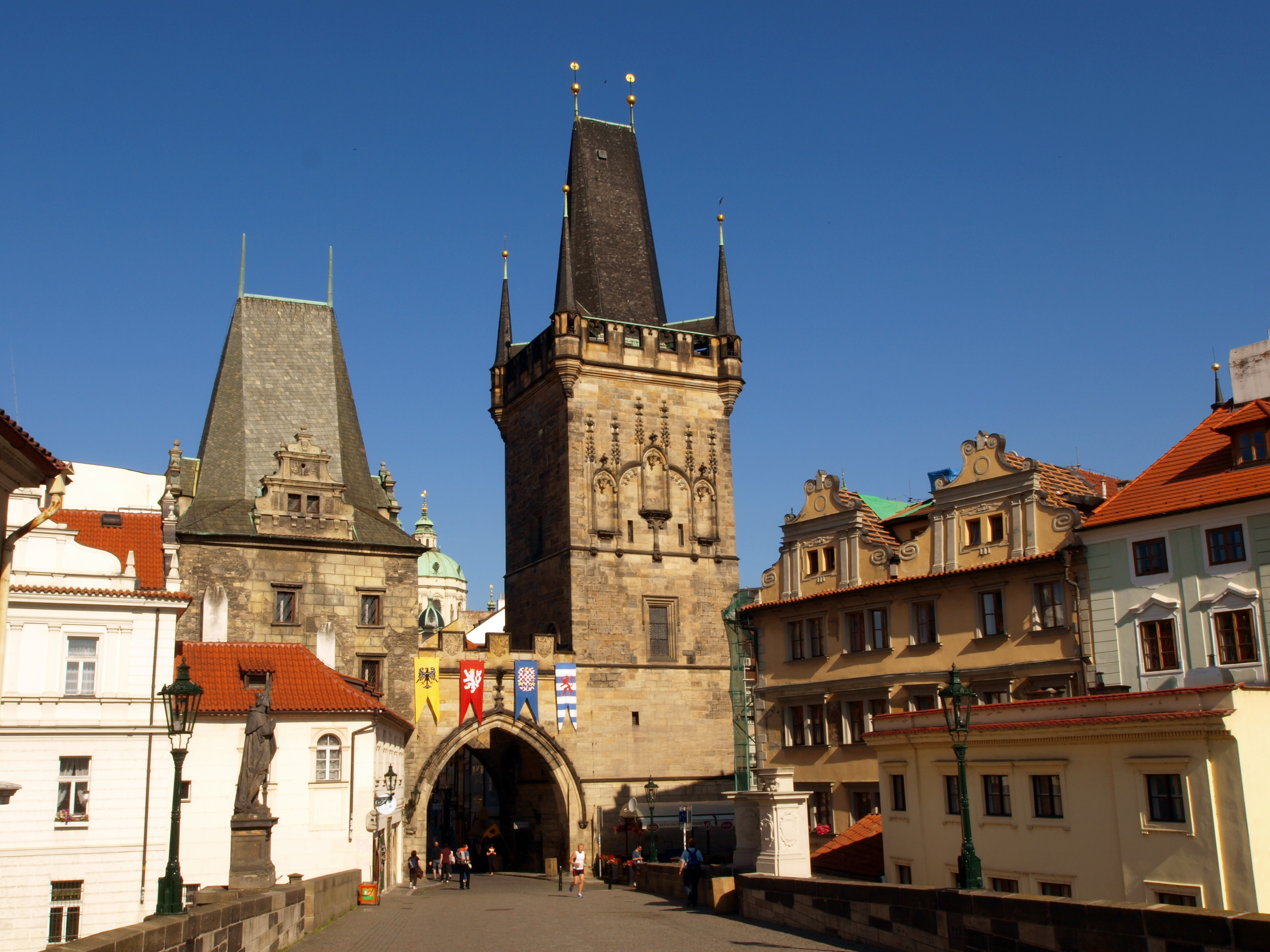 Charles Bridge